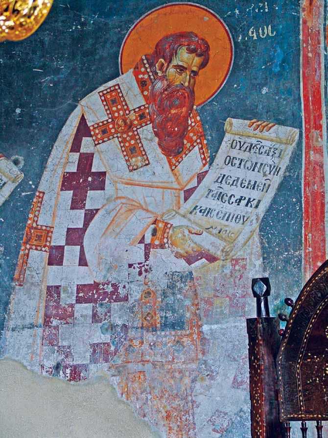 Fresco of St. Basil the Great, lower register of sanctuary in Church of the Theotokos Peribleptos in Ohrid, Macedonia